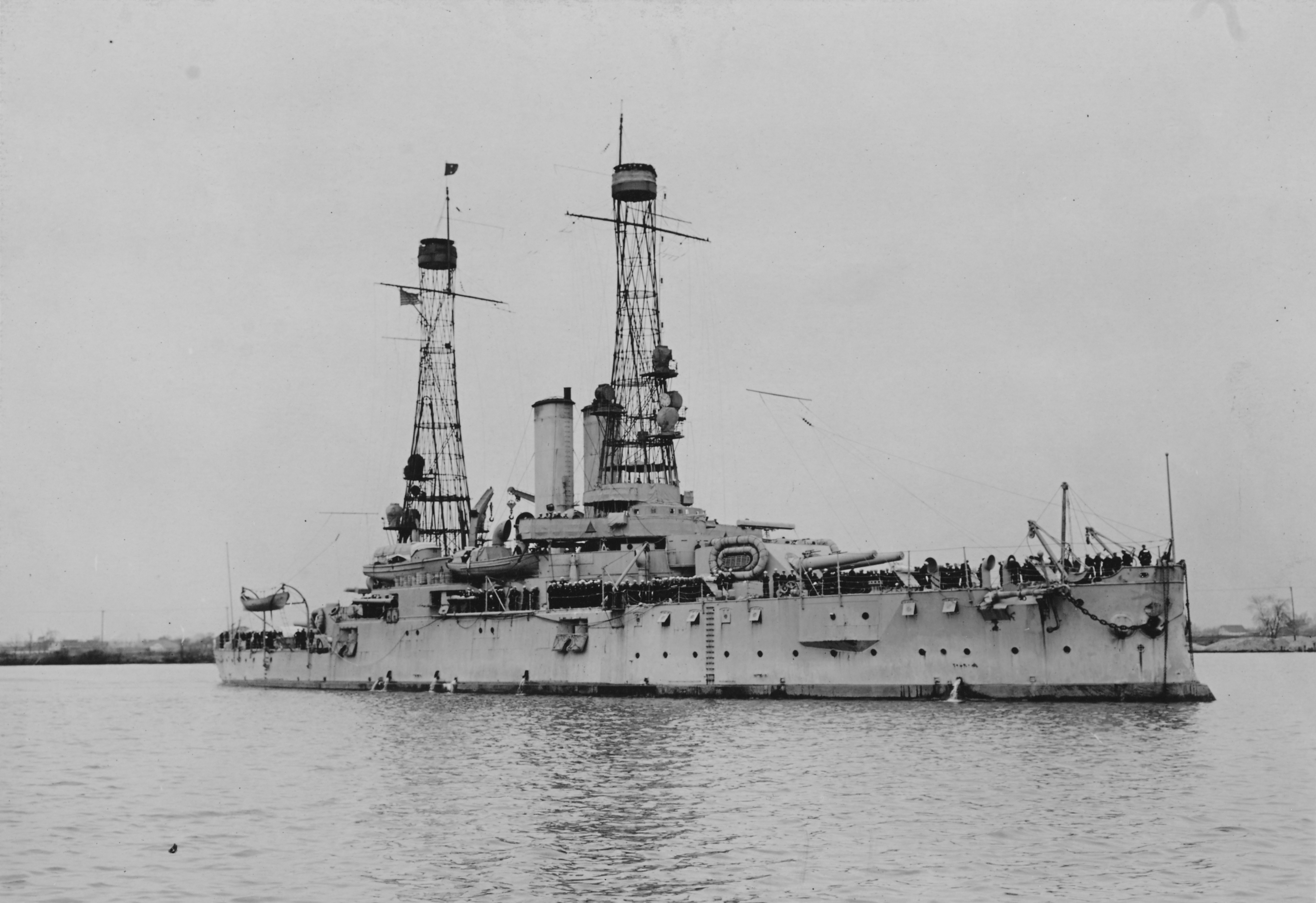 (Battleship # 8) Off Philadelphia, Pennsylvania, circa 1919. Photographed by LaTour. U.S. Naval History and Heritage Command Photograph.